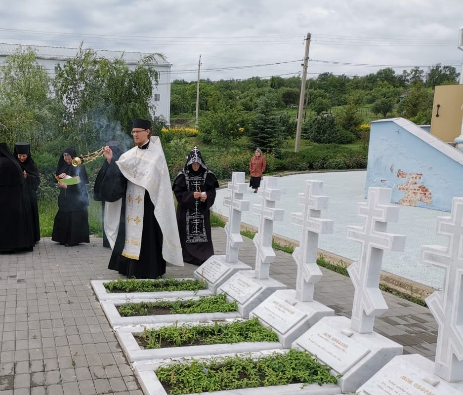 Панихида, совершаемая клириком монастыря